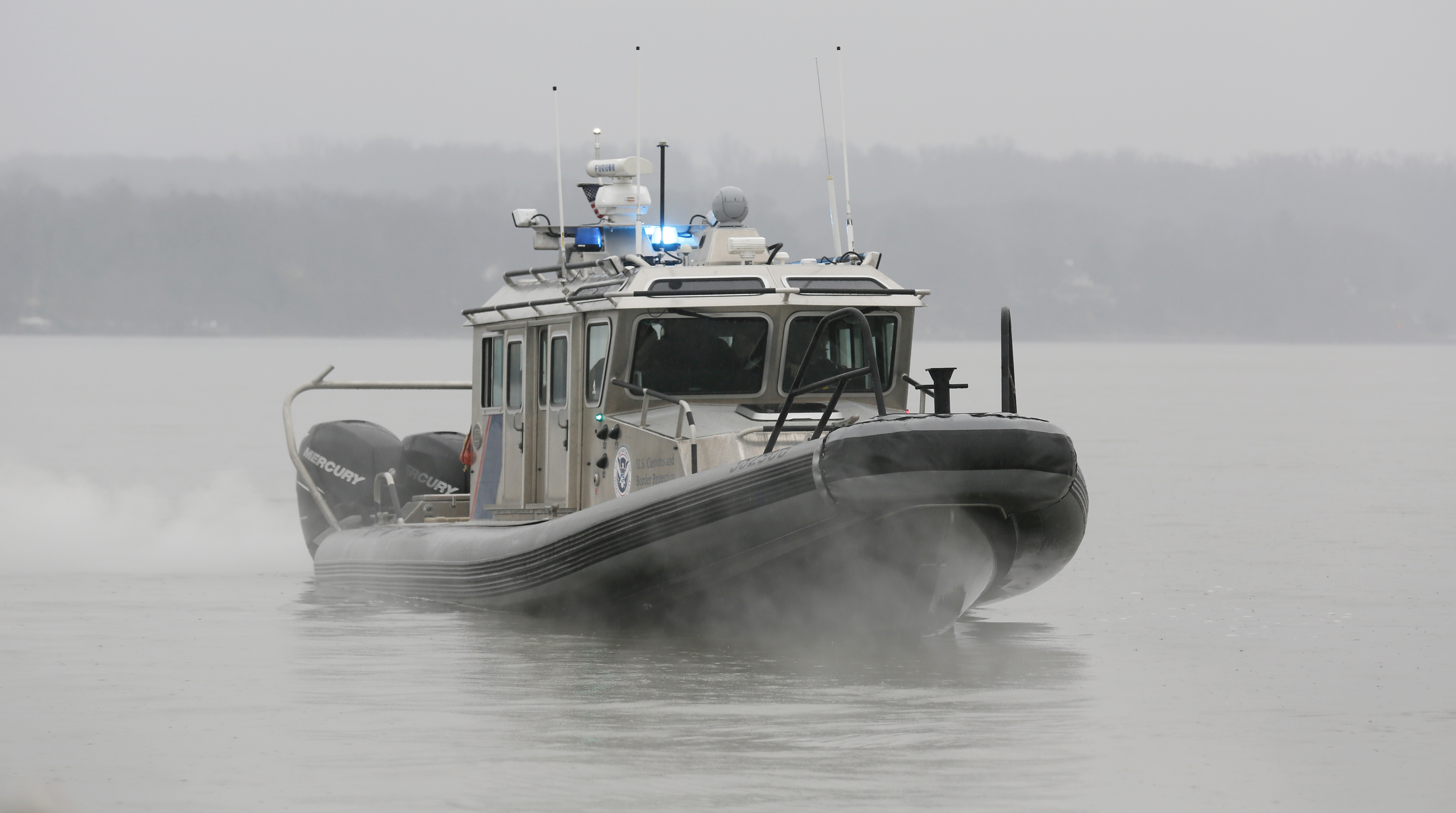 Marine interdiction agents with U.S. Customs and Border Protection, Air and Marine Operations monitor and secure the waterways around the Washington, D.C., area January 17, 2017, ahead of the inauguration of the 45th President, Donald J. Trump set for Friday, January 19, 2017 . U.S. Customs and Border Protection Photo by Glenn Fawcett